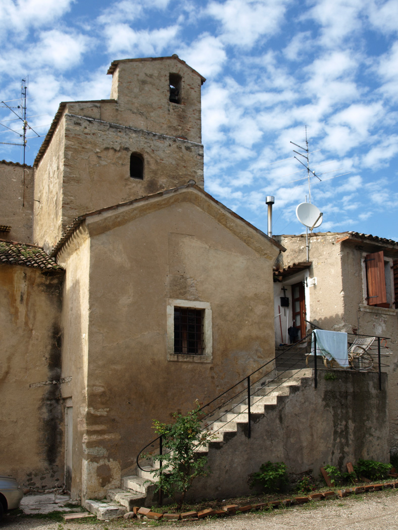 Italy, Bardolino(Veneto), San Zeno, photo 2011